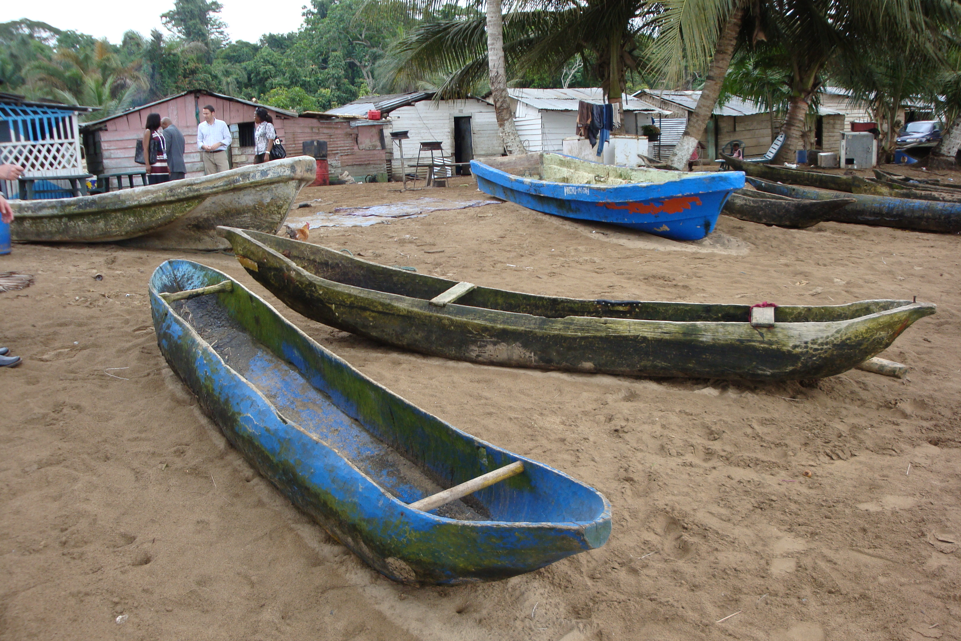 This is an image with the theme "Africa on the Move or Transport" from: Equatorial Guinea